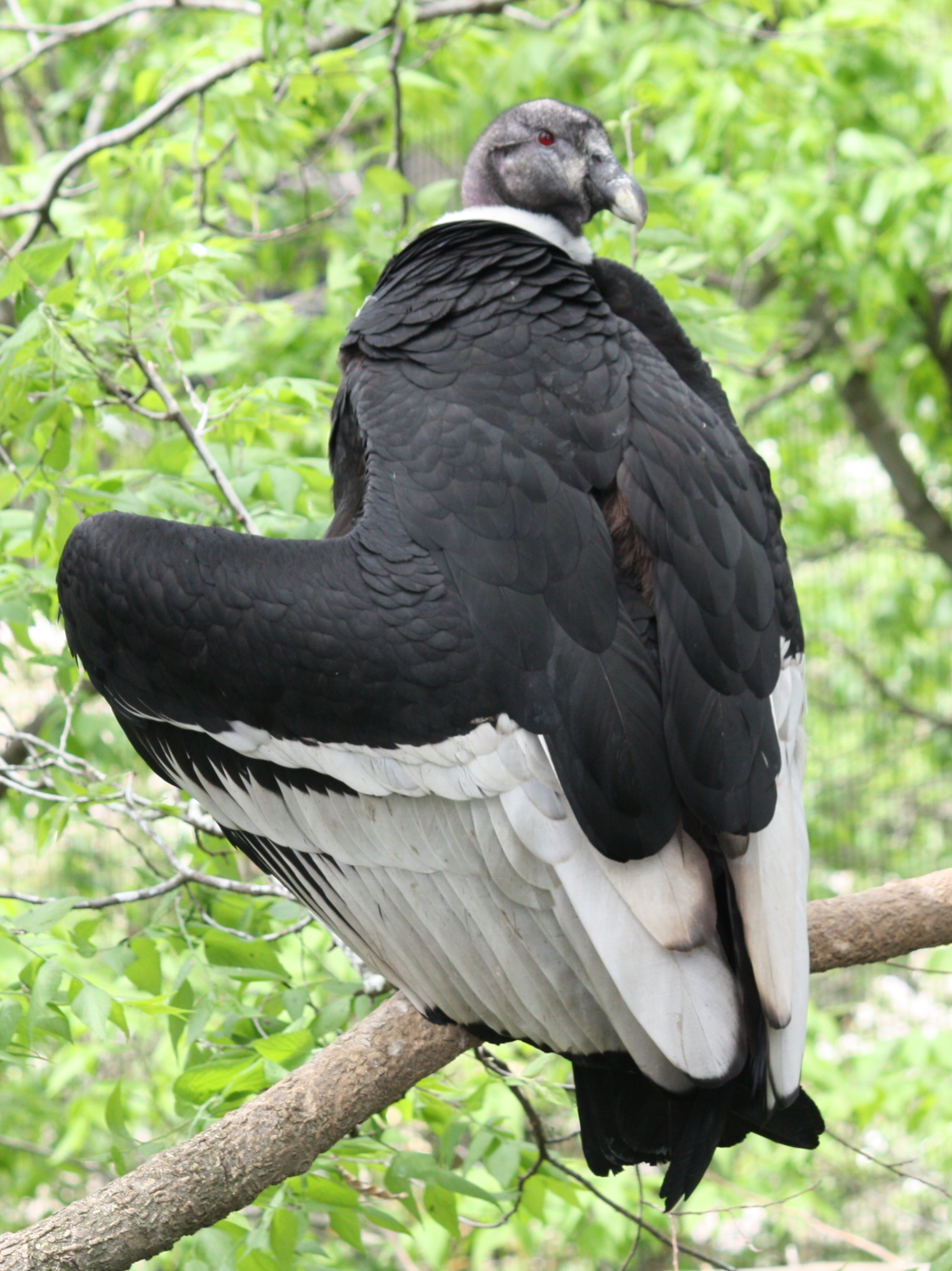 Andean Condor Vultur gryphus at Cincinnati Zoo